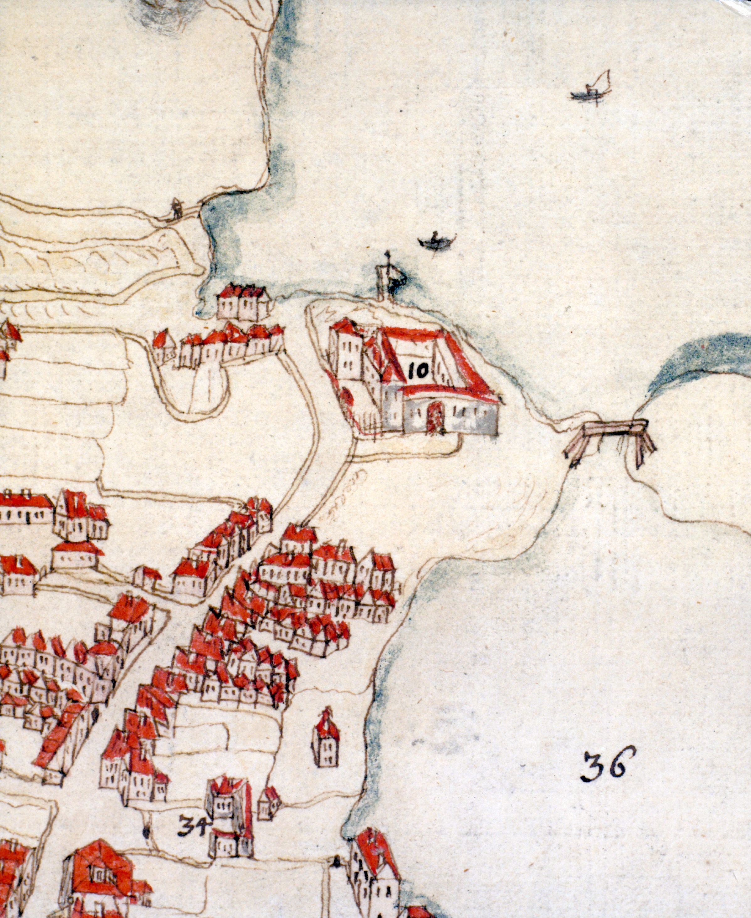 This detailed from a prospect over Bergen made in 1740 shows Lungegården, built on the foundations of Saint Mary's convent (Nonneseter).